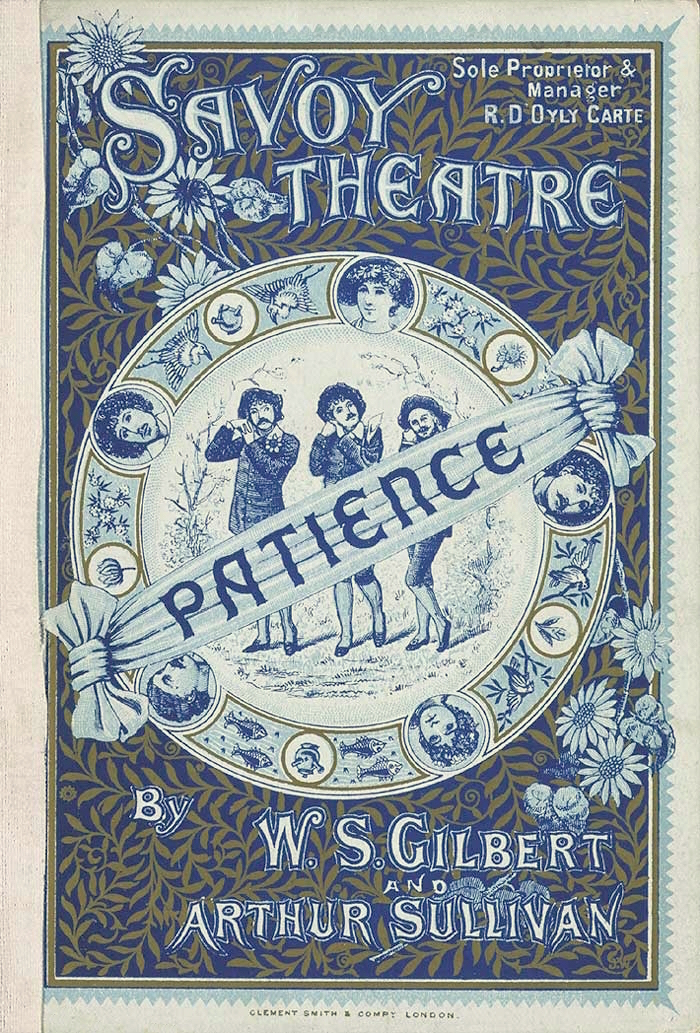 1881 Programme for Gilbert and Sullivan's Patience